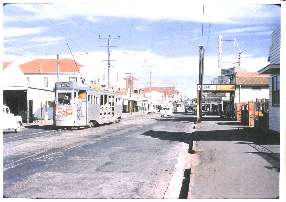 Shops on Lutwyche Road in Lutwyche QLD, 1954. This is near the intersection of Chalk and Thistle Street. The Lutwyche Post Office is on the bottom left of the image. The Imperial Picture Theatre is at the top left. This image is out of copyright in Australia as it was created before 31/12/1954.